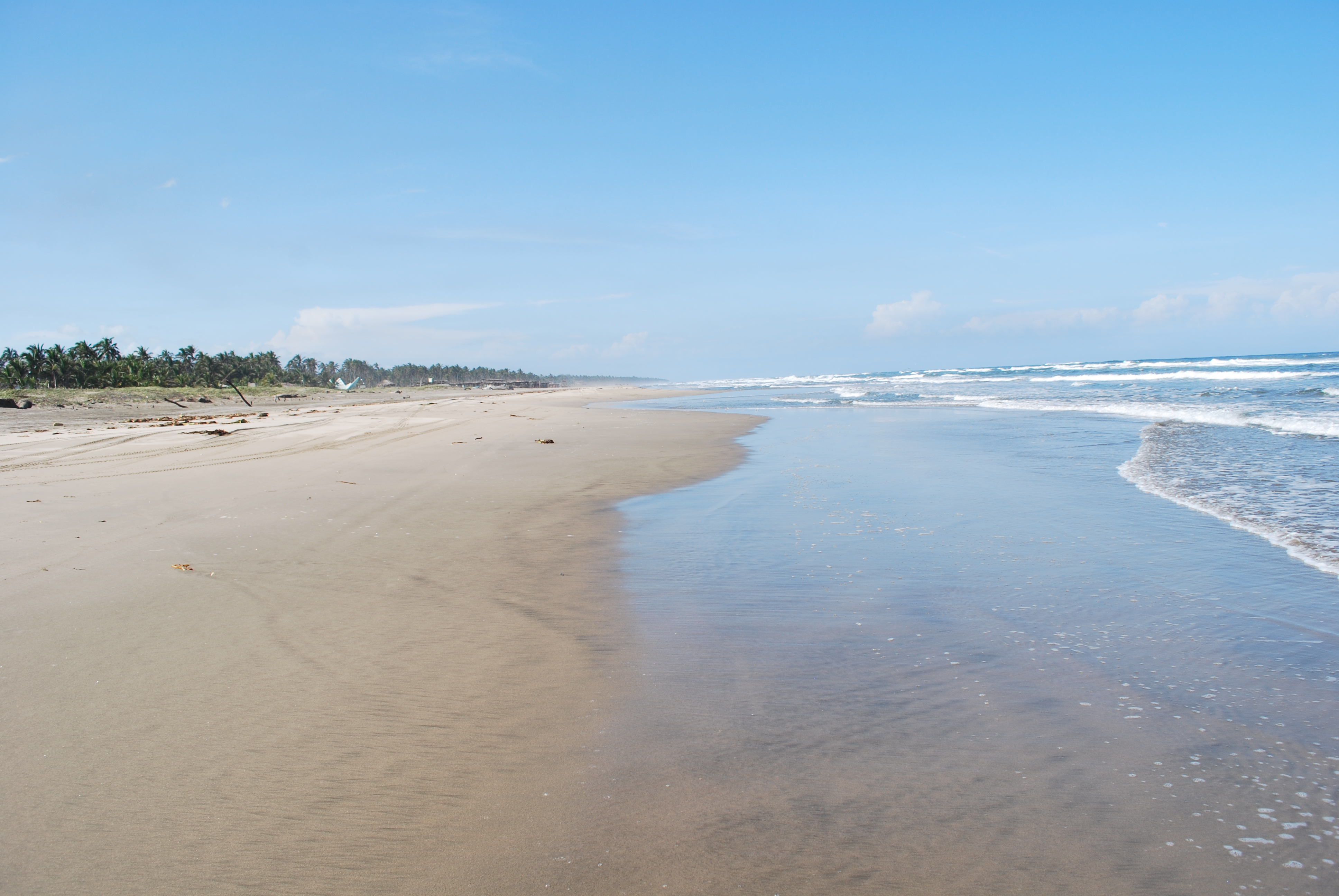 View of Varadero Beach, Paraíso, Tabasco